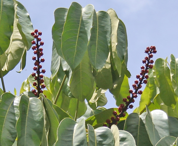 Octopus Tree Schefflera actinophylla in Hyderabad , India.